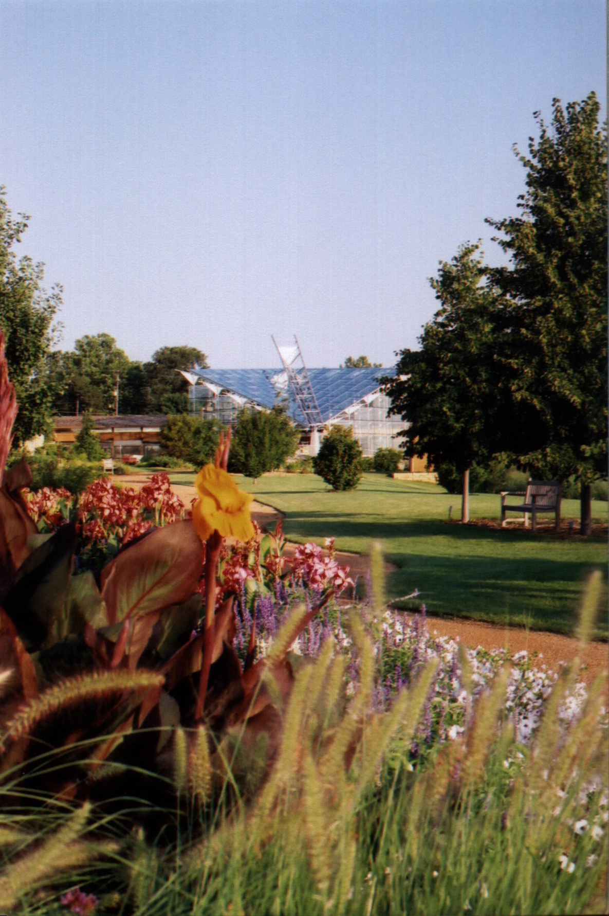 The Christina Reiman Butterfly Wing at Reiman Gardens - Home to hundreds of butterflies from around the world.